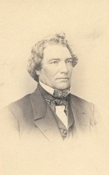 Nathan Fellows Dixon II